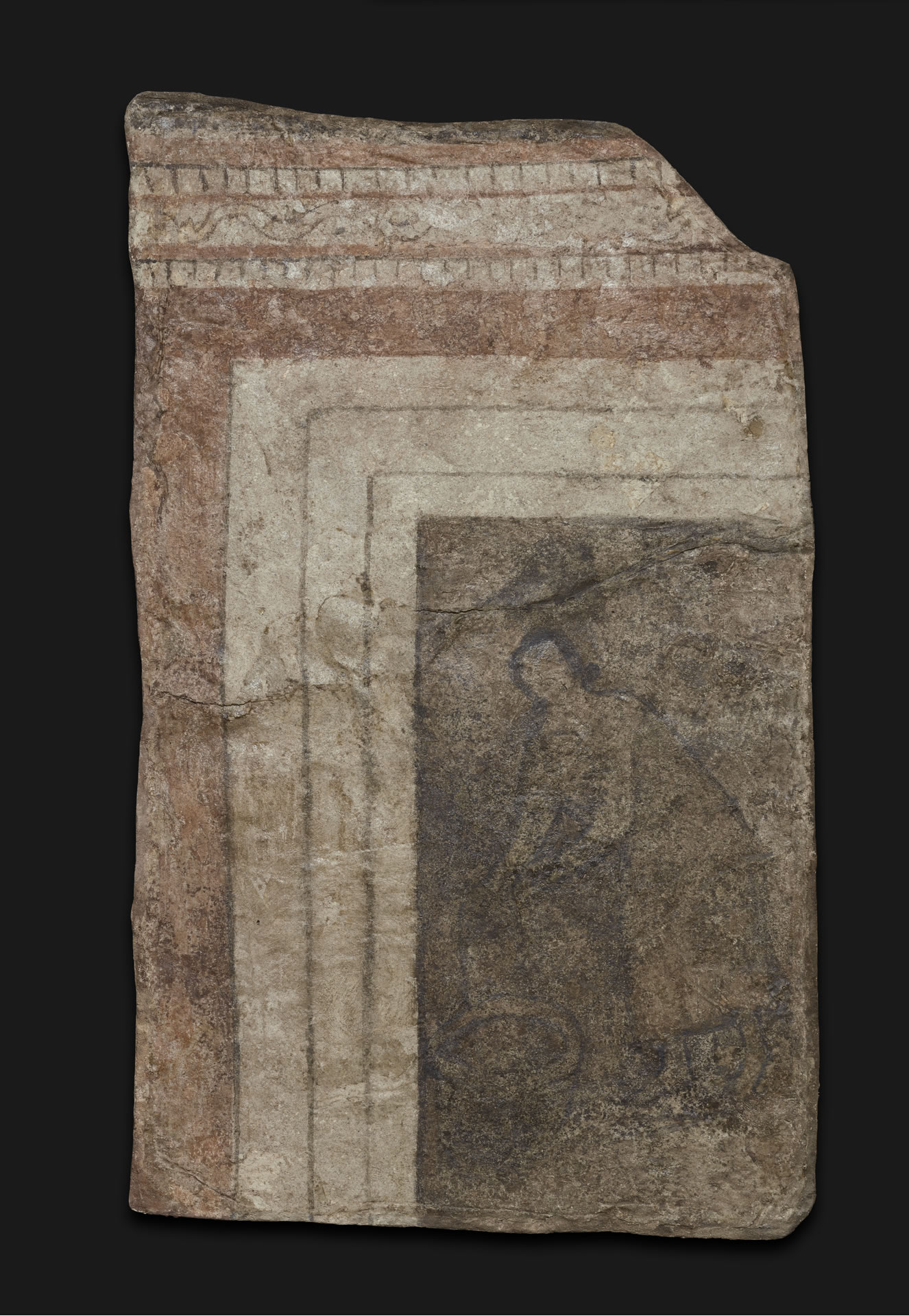 Cult Painting from house church in Dura Europo, Yale University Art Gallery 1932.1204.2